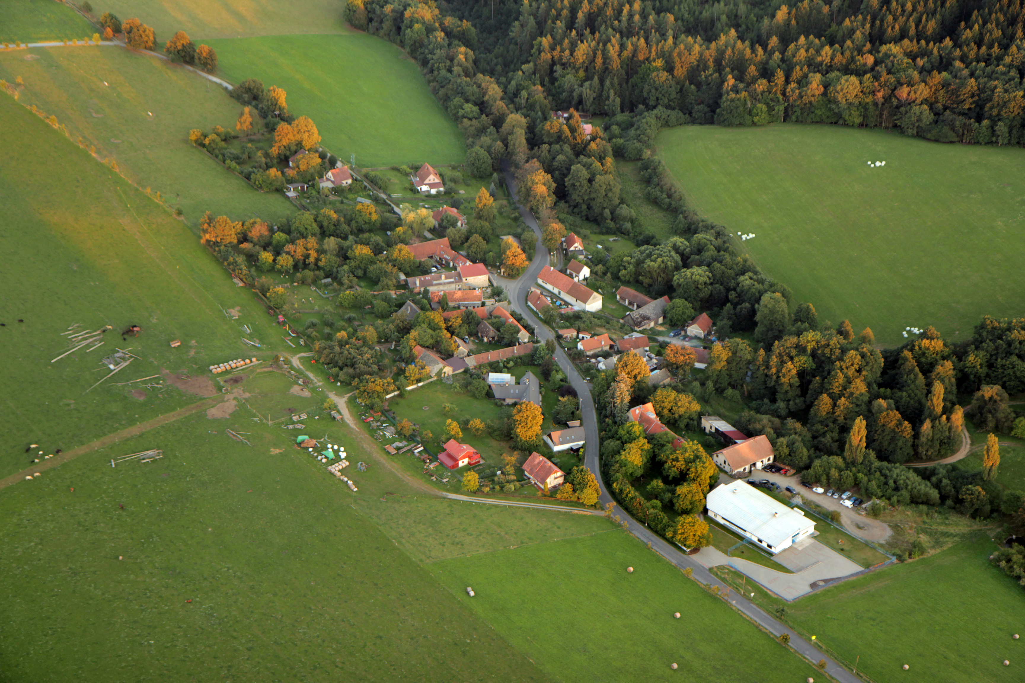 Aerial view of Dojetřice, part of Sázava (Benešov District) town, Czech Republic